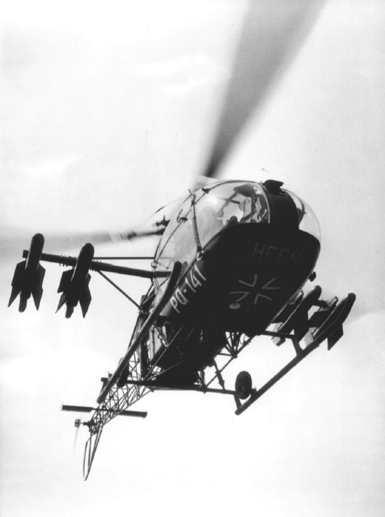 German Army Helicopter (Alouette II) carrying SA.11 anti-tank missiles, West Germany, 1960